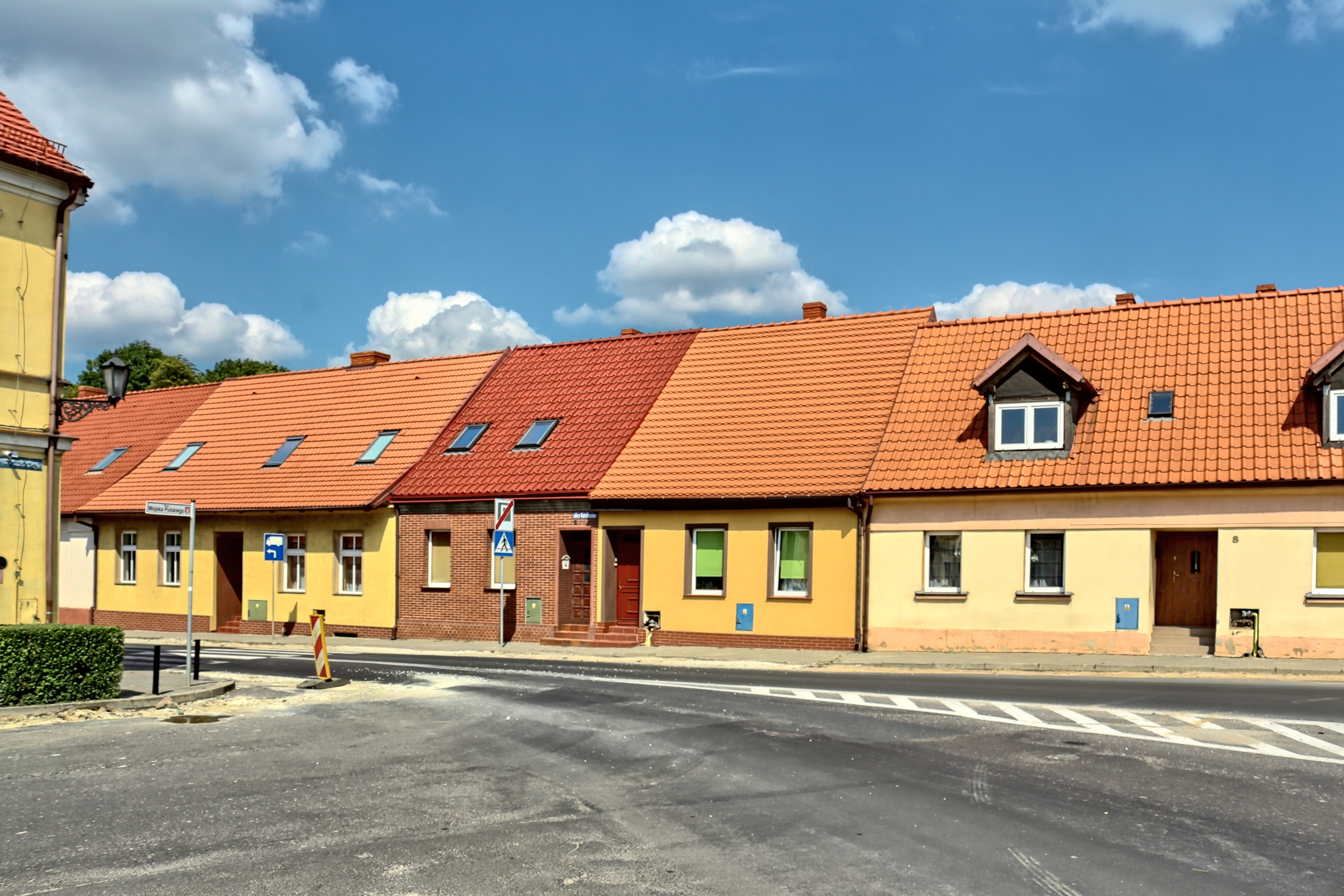 Śmigiel, Wojska Polskiego square